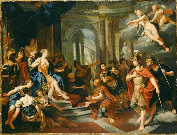 Dido receiving Aeneas as he arrives in Carthage.